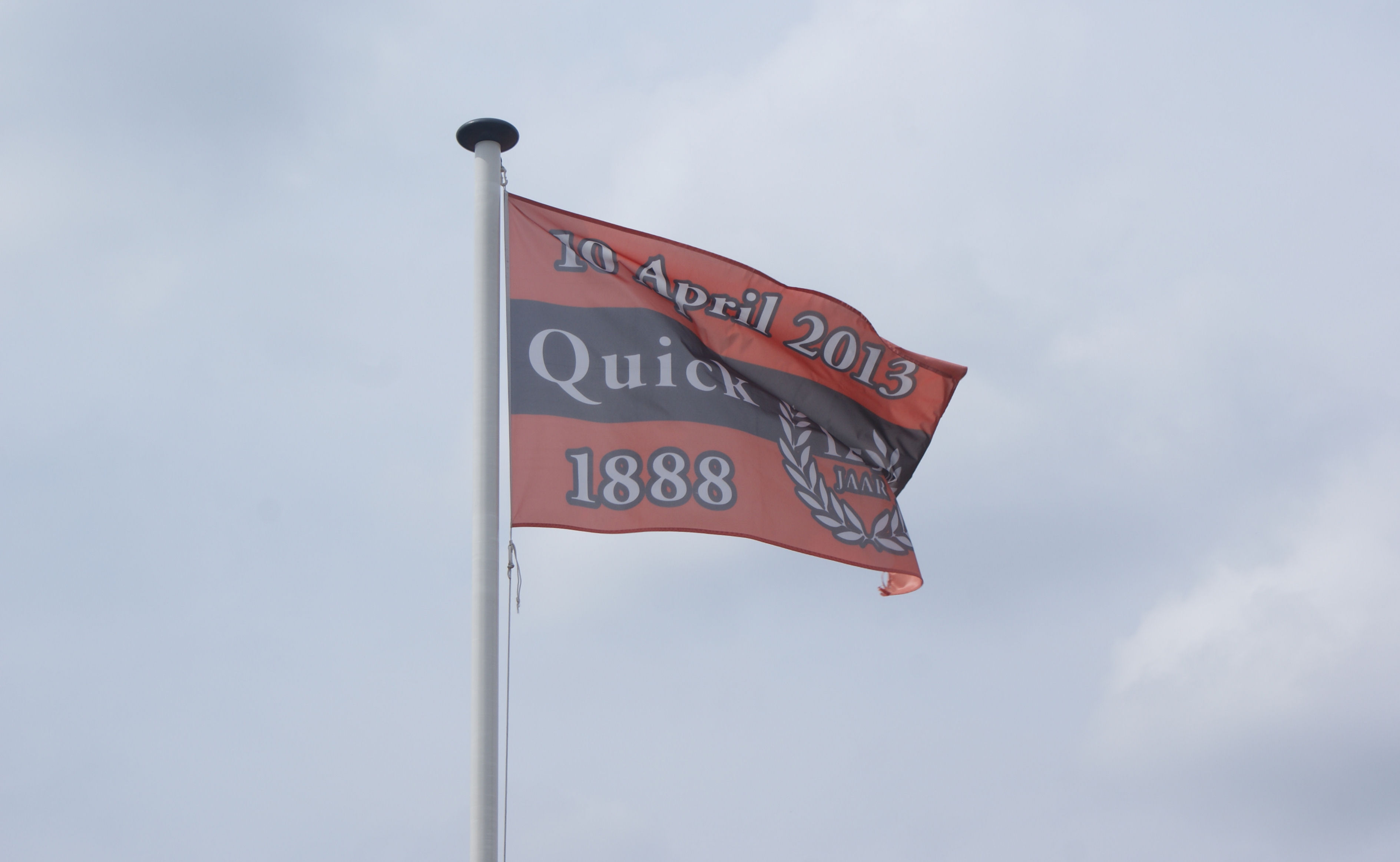 Quick 1888 Nijmegen